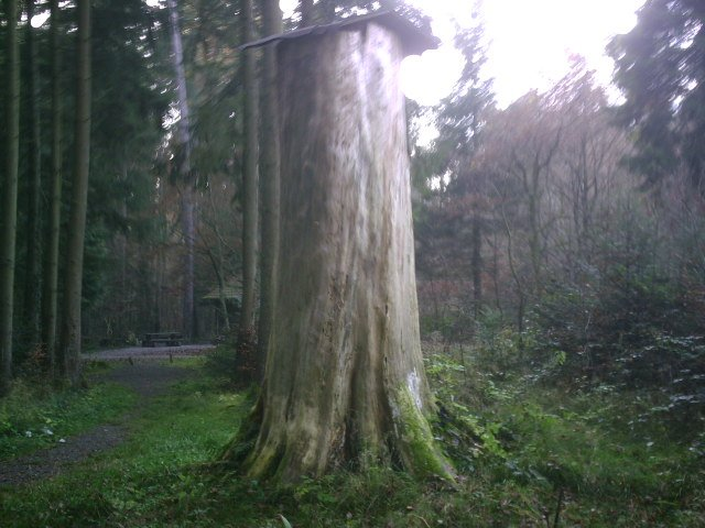 Large Fir near Bergöschingen